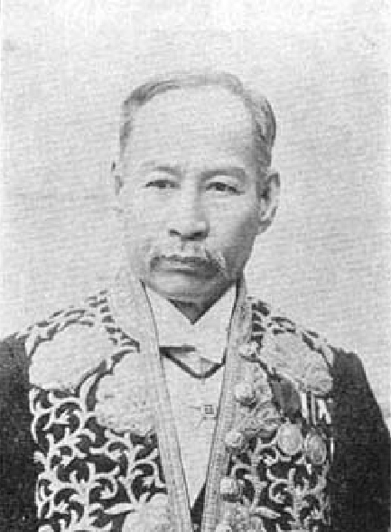 Kim Ga-Jin Portrait